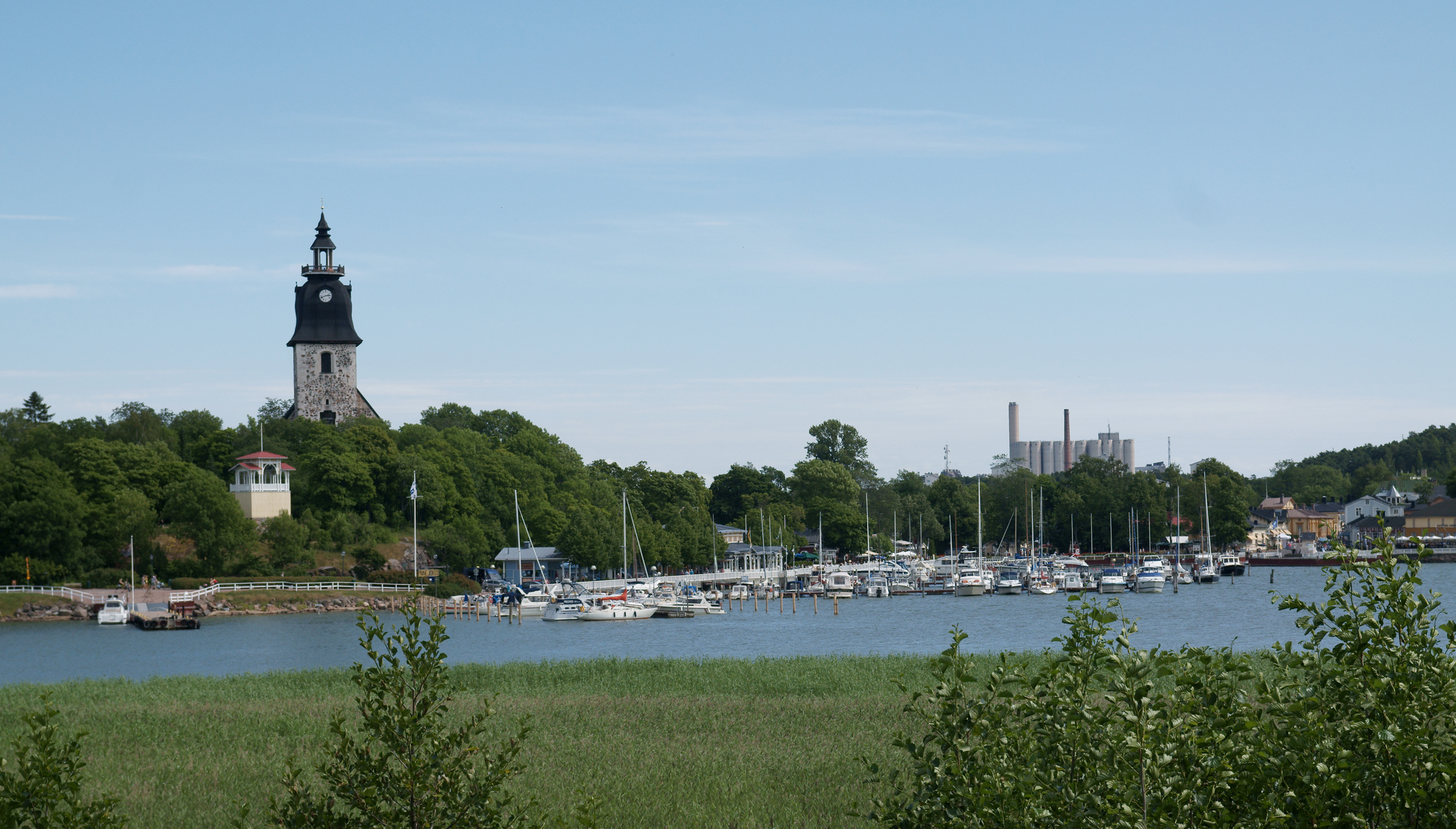 View from Muumimaailma to Naantali.